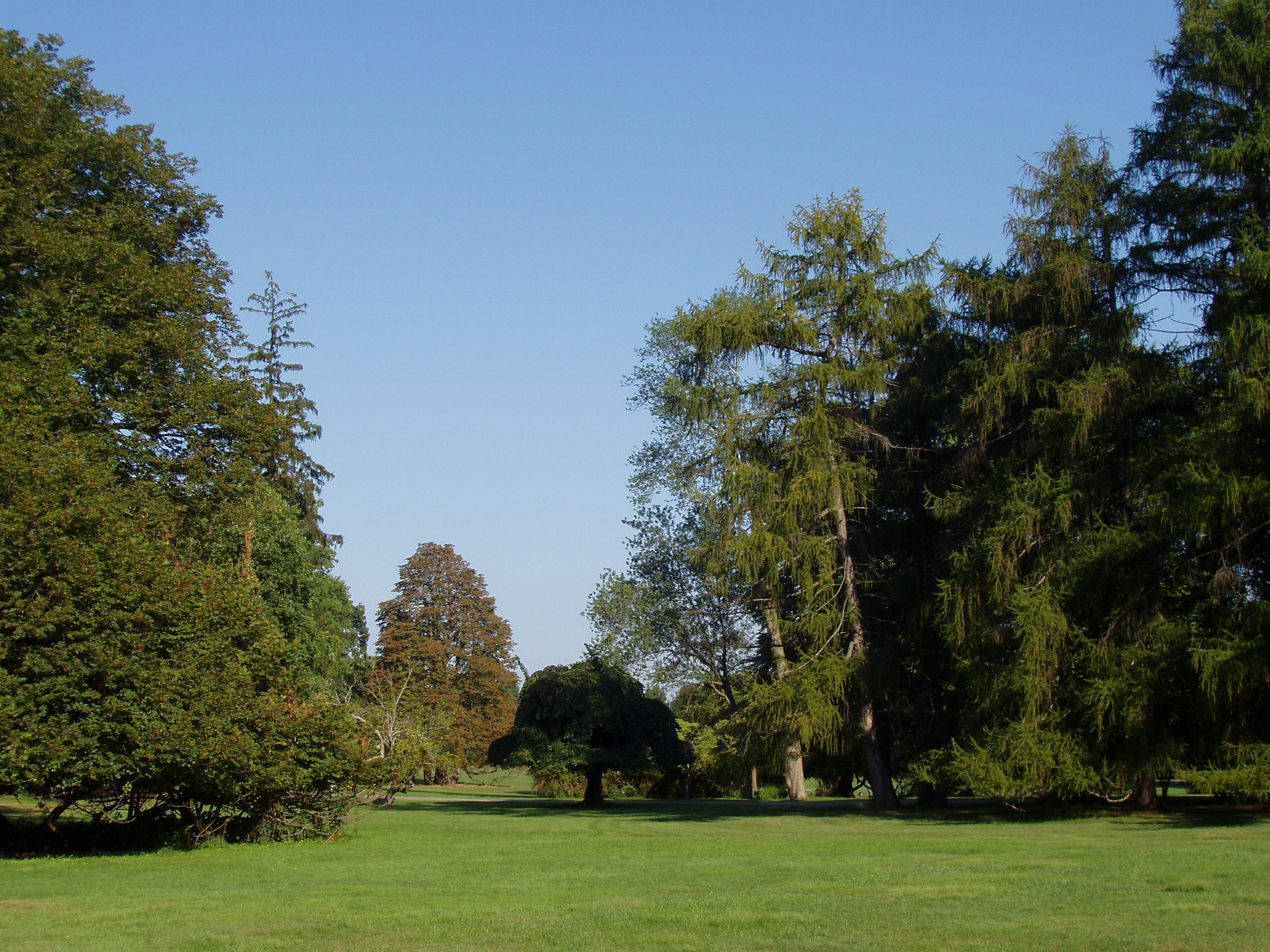 Lyndhurst, Tarrytown, New York - a view in the front park. Photograph taken by me, September 2005.